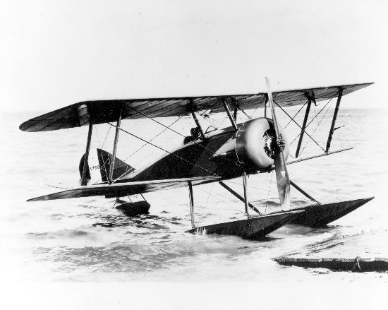 Thomas-Morse S-5 trainer on floats.